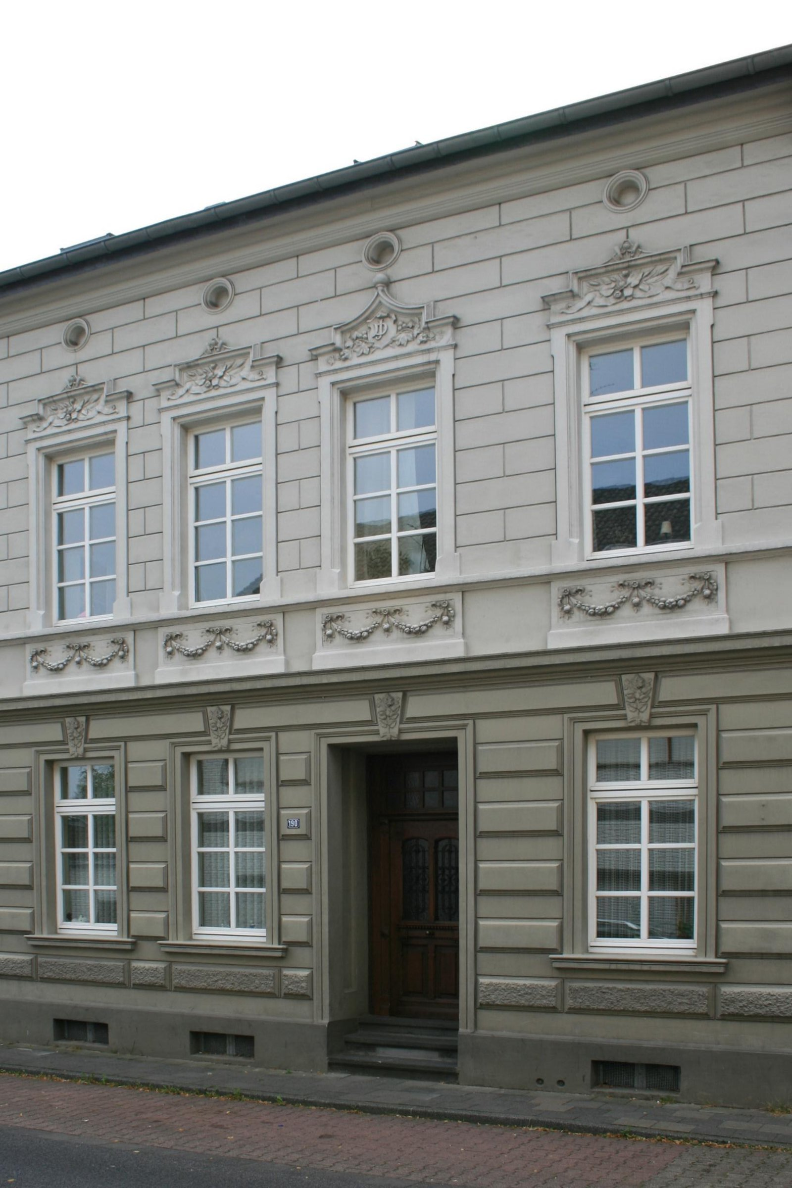 Cultural heritage monument No. M 027 in Mönchengladbach